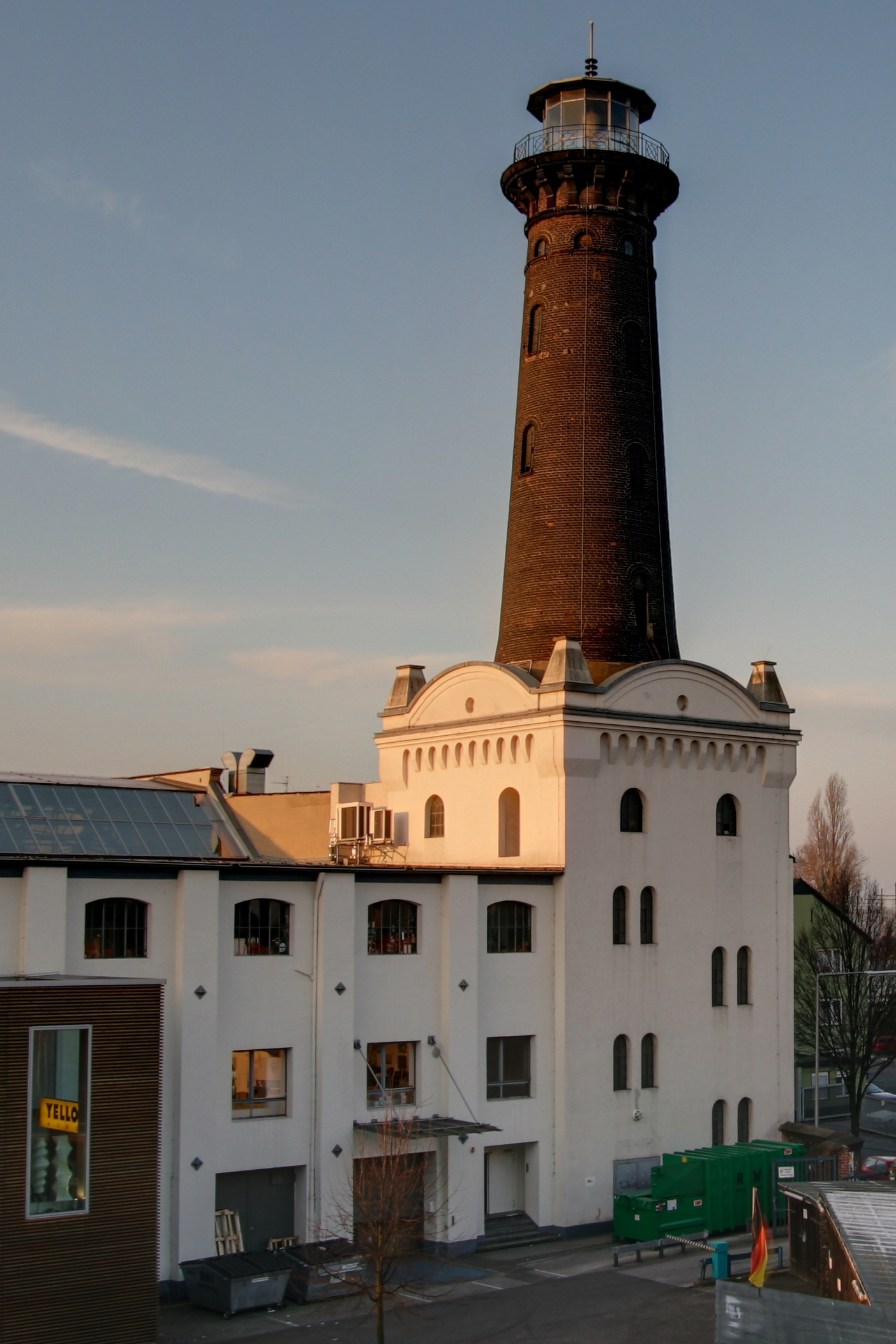 Ancient lighthouse in Cologne-Ehrenfeld